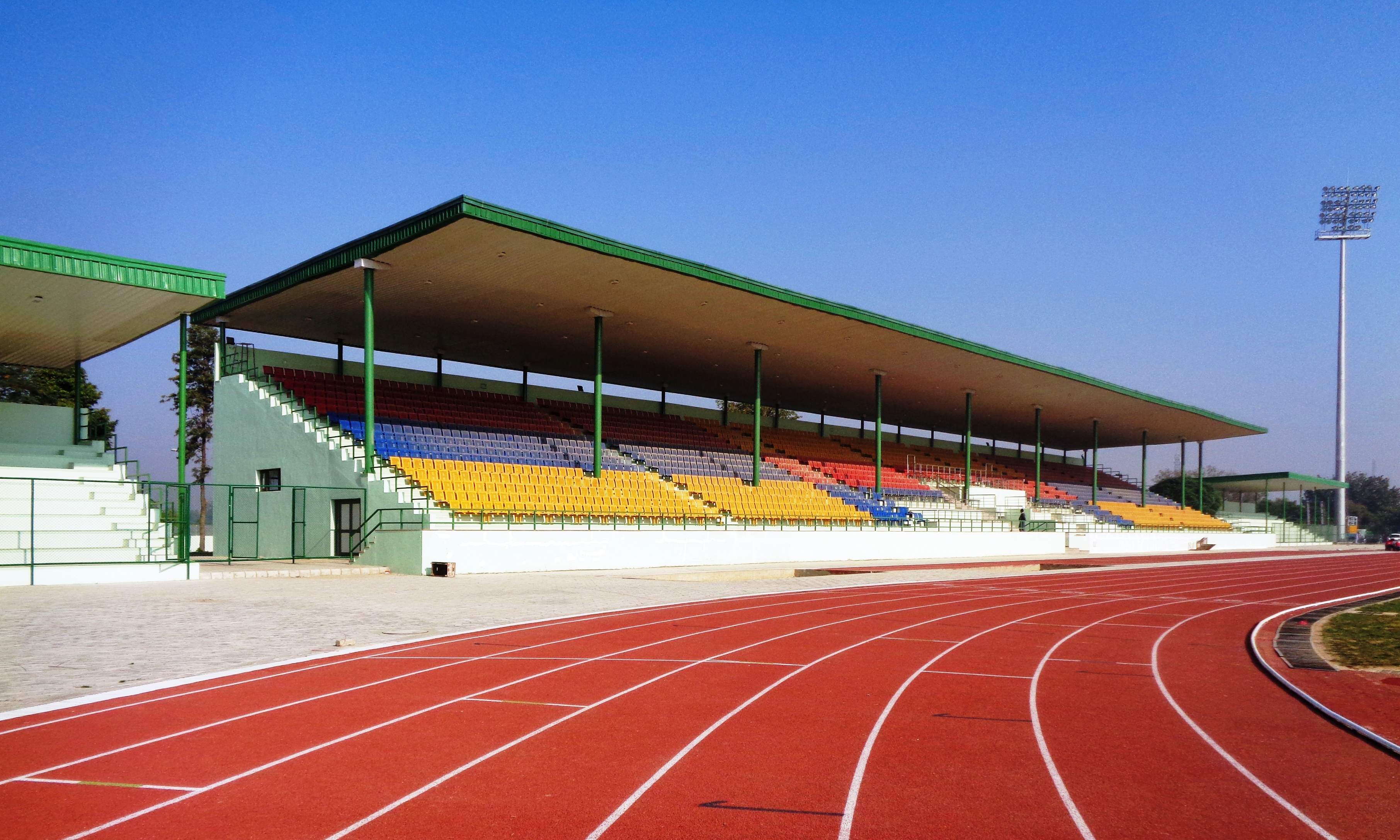 SPORTS STADIUM, BADAL, VIEW-1